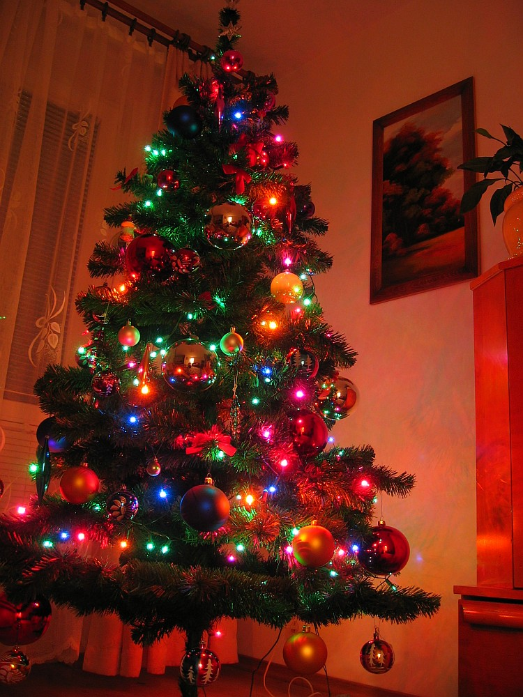 Artificial Christmas tree.